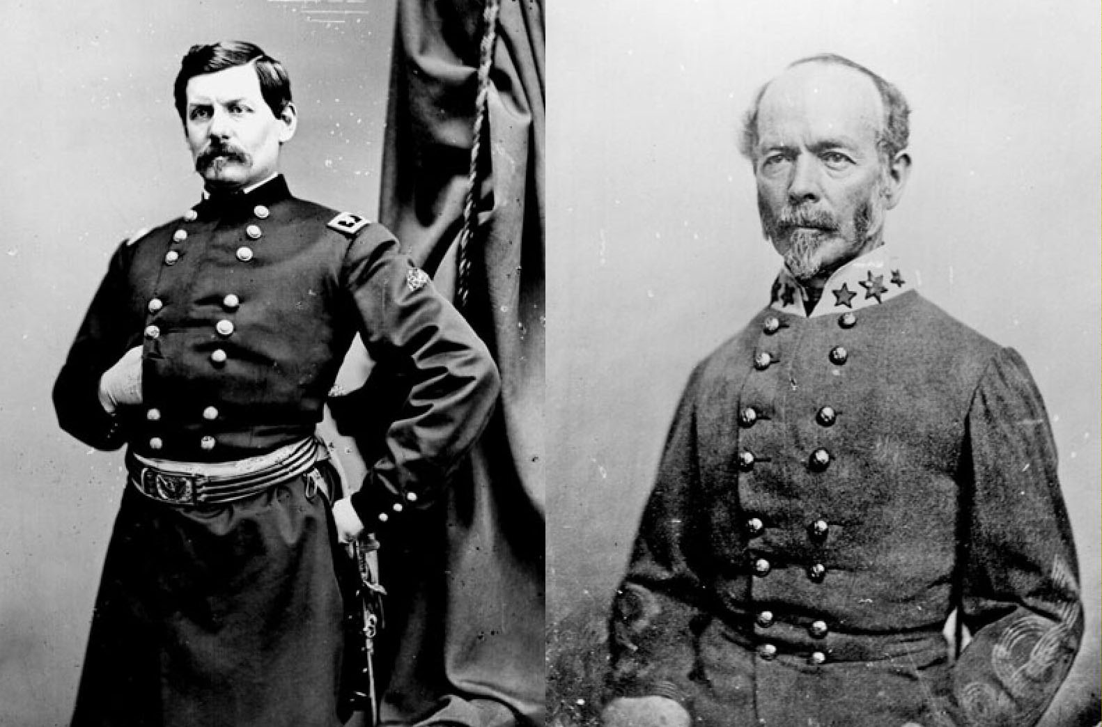 Photos merged together from two Wikipedia images: Image:GeorgeMcClellan.jpeg and Image:Joseph Johnston.jpg